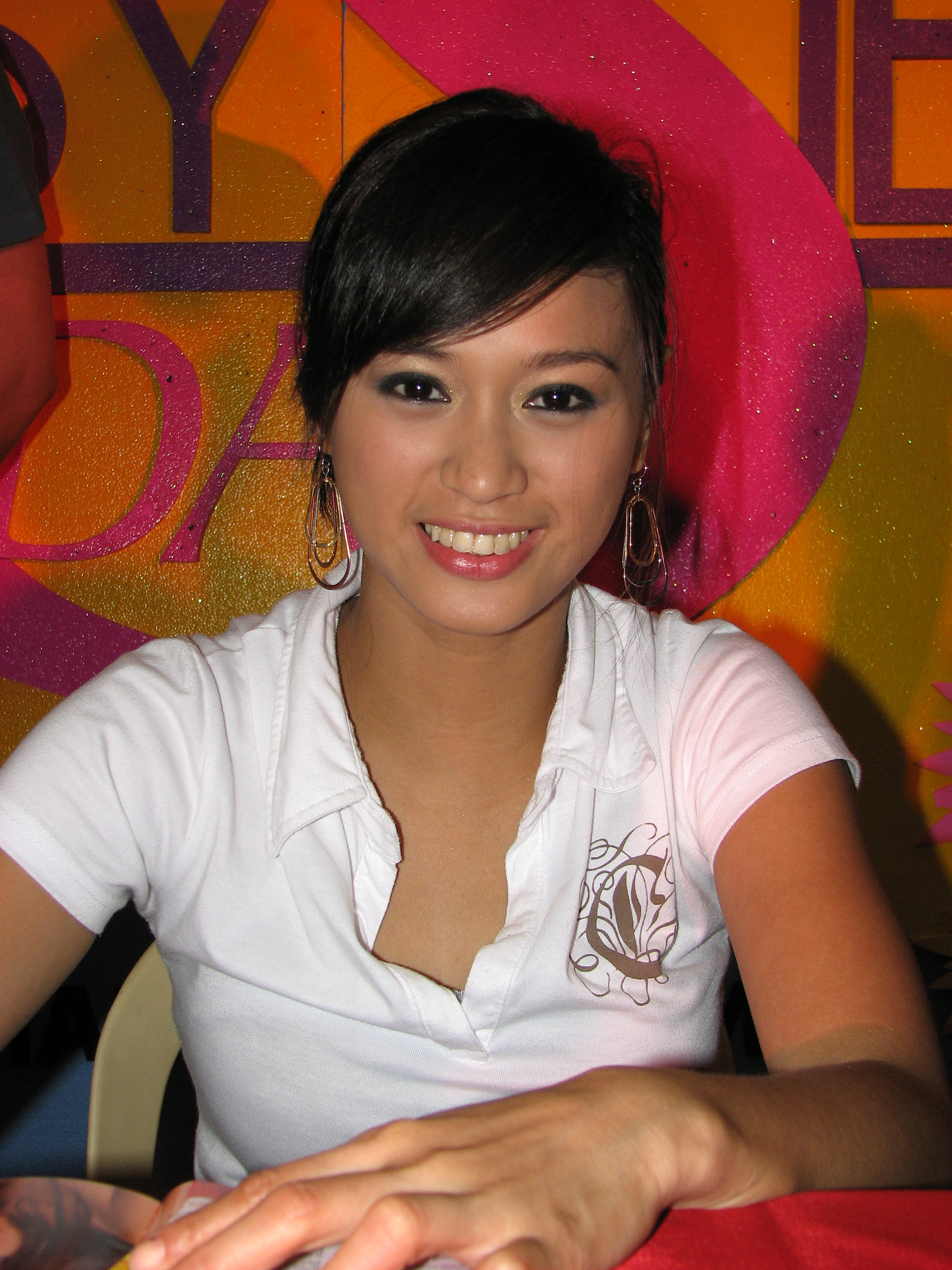 Photography of Jopay, taken by K. Saulog on 24 March 2007 at Ever Grand Central.